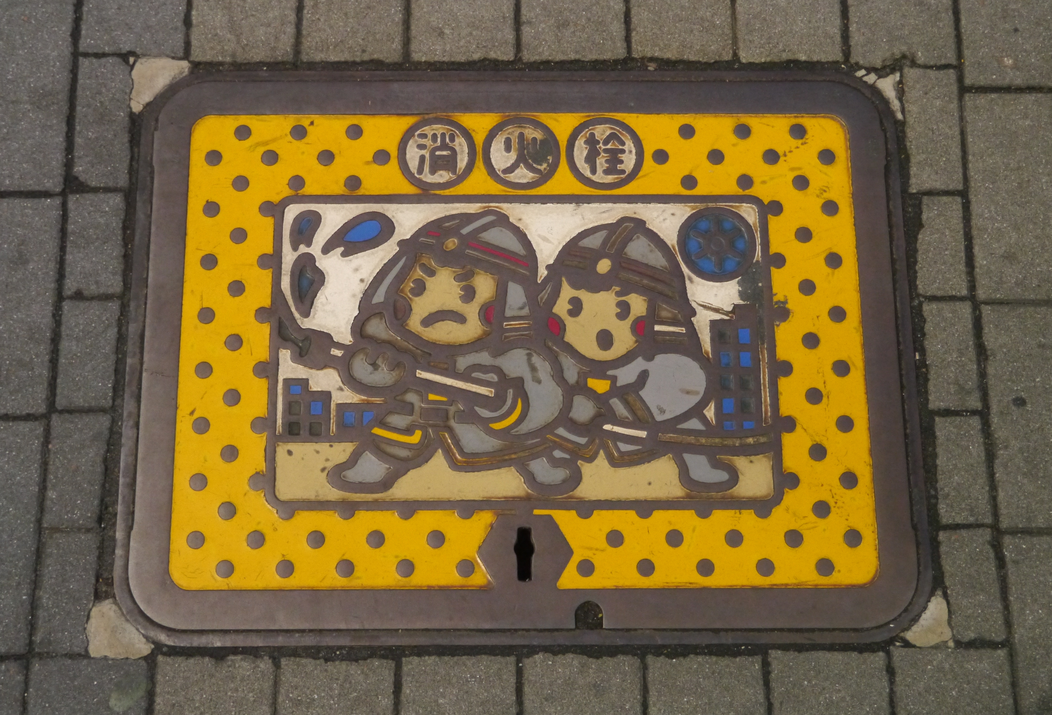 Japanese aesthetics and popular culture related example. Even fire hydrant function and location is expressed using cute cartoon characters.